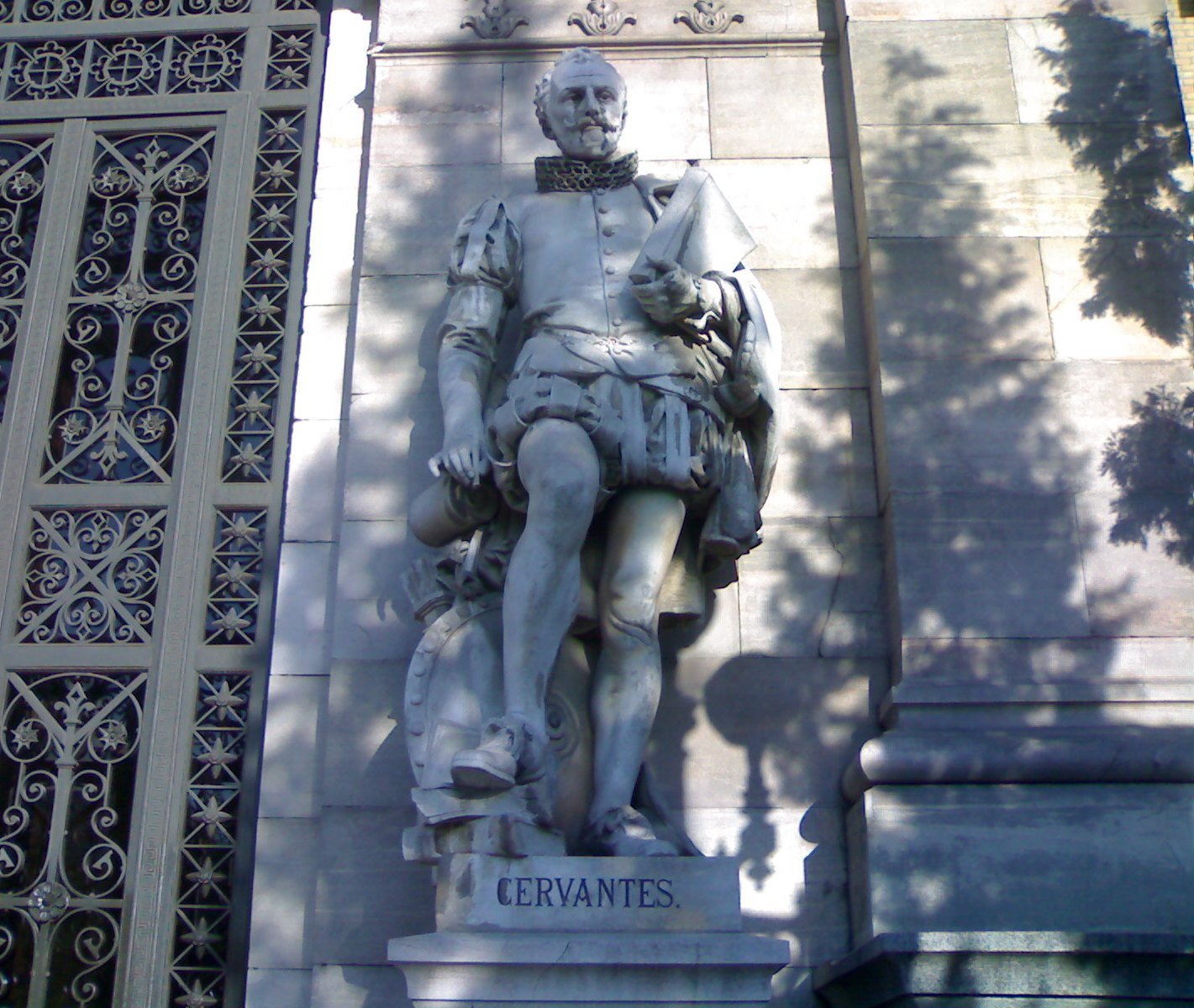 Statue of Miguel de Cervantes (1547–1616) at the entrance of the National Library of Spain, in Madrid. Sculpted in Italian white marble by Joan Vancell Puigcercós in 1892.